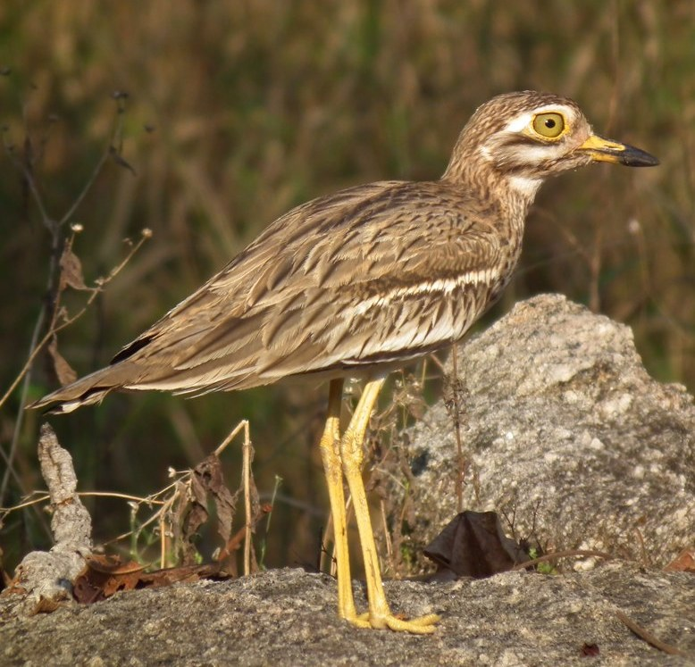 Indian Eurasian Stone-curlew Burhinus indicus (syn. Burhinus oedicnemus indicus), in central India. Pench or Kanha National Park.